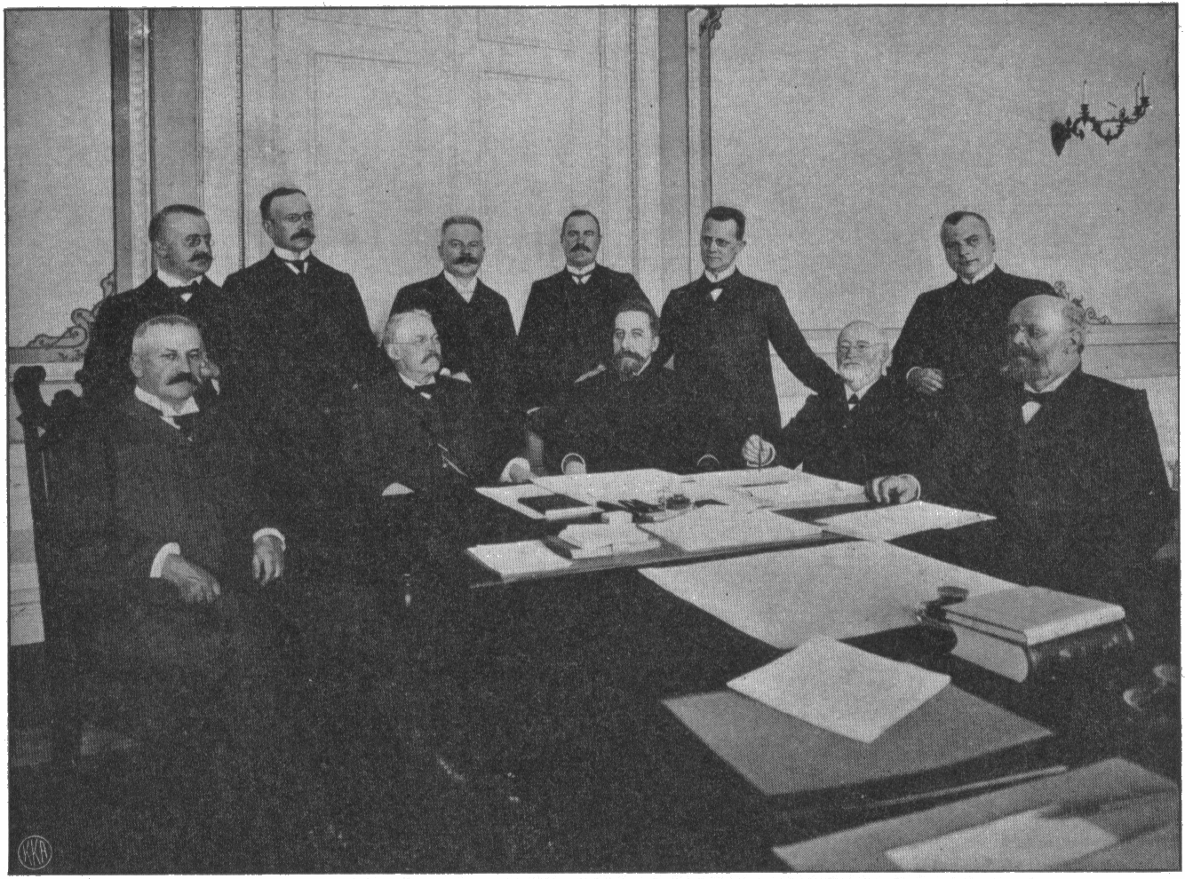 The Norwegian and Swedish negotiators at Karlstad, Sweden, 1905.